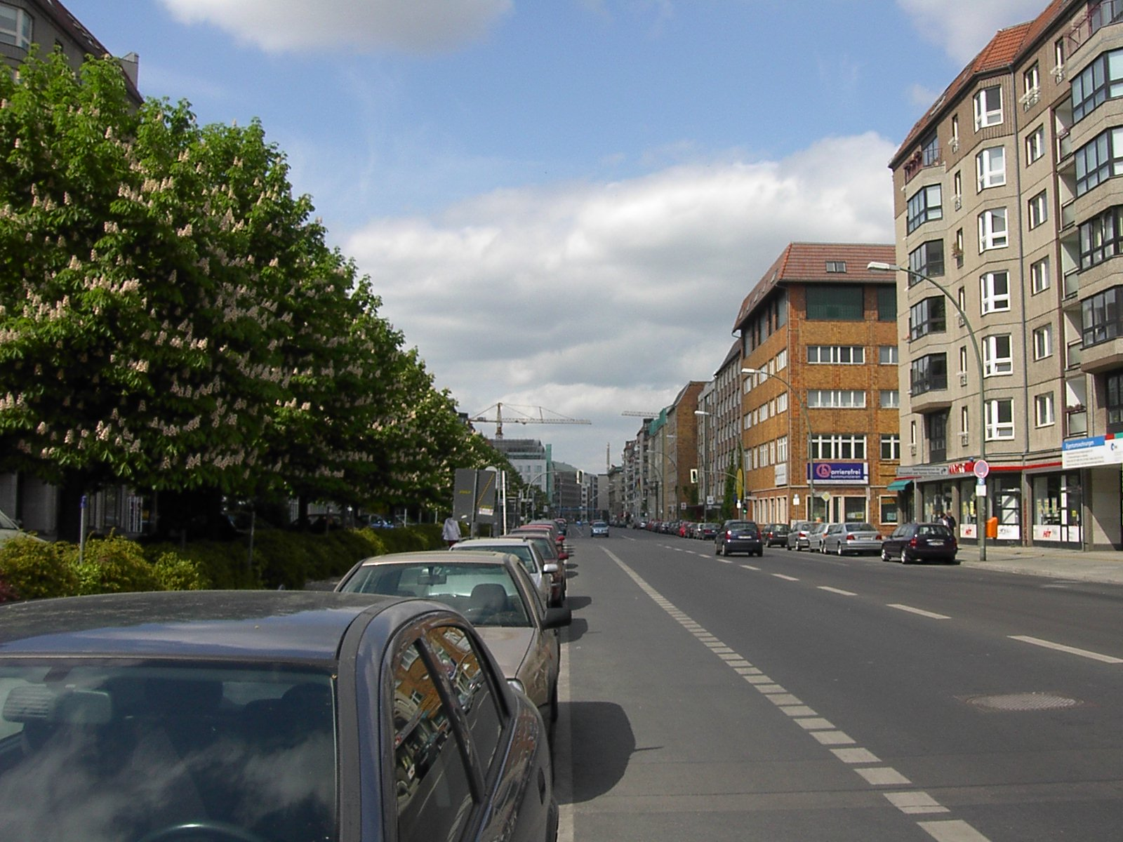 Berlin Wilhelmstrasse from en Wikipedia Photo by User:Adam Carr, May 2006